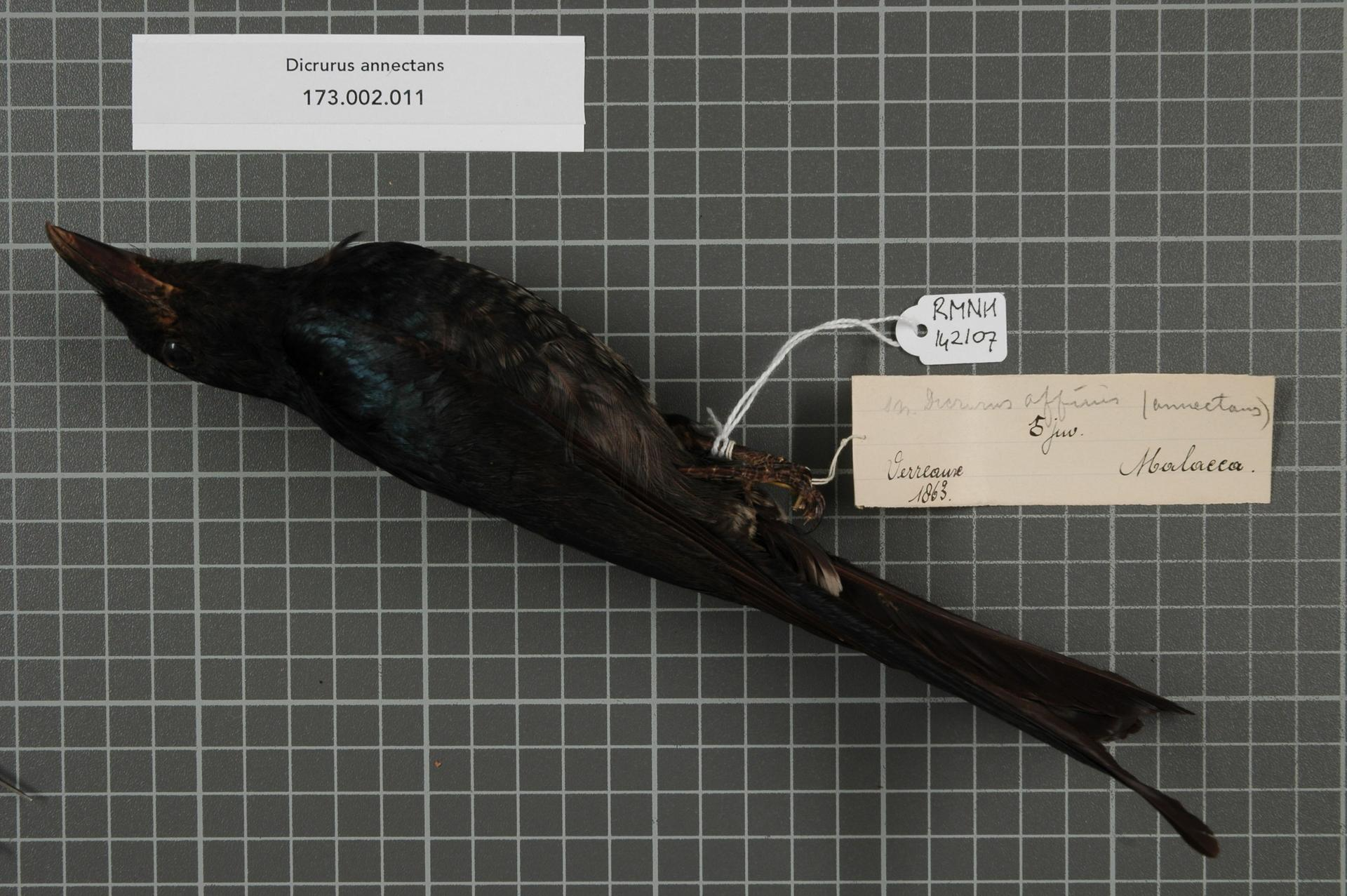 Dicrurus annectans (Hodgson, 1836)